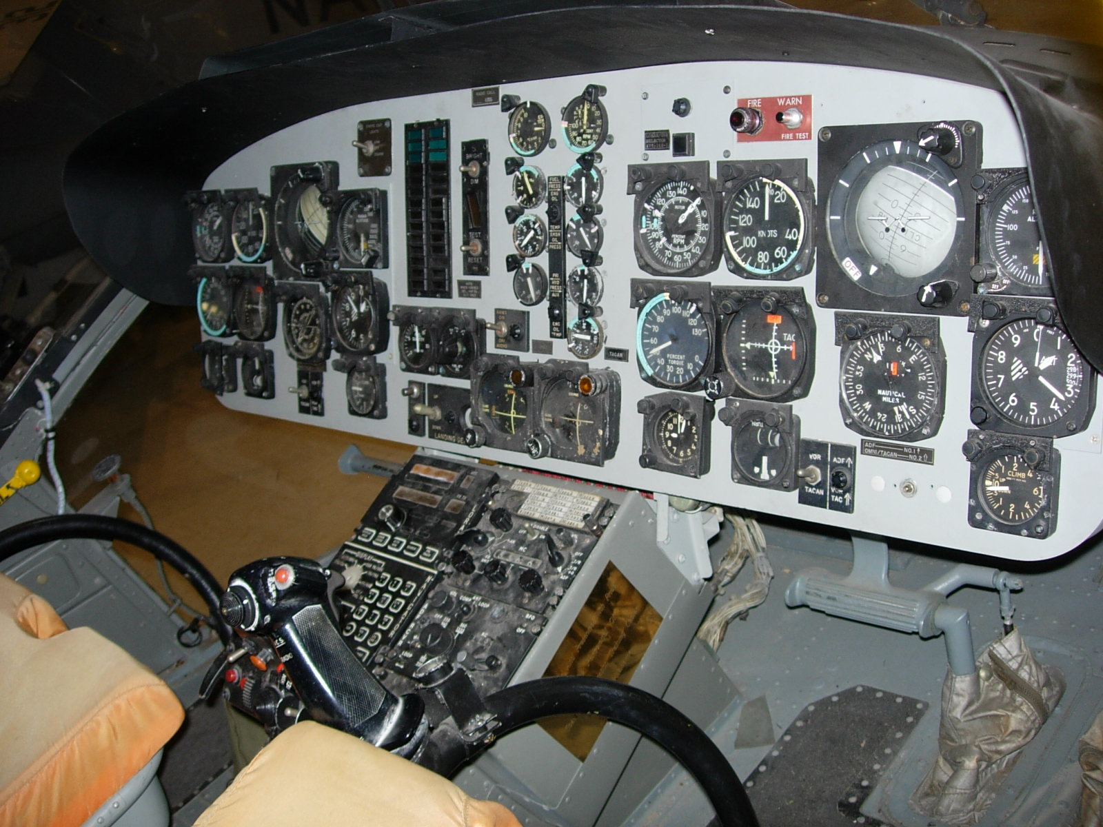 Cockpit of HH-52A Seaguard USCG1355 at the National Museum of Naval Aviation